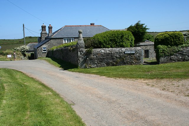 Trevellas Manor Farm. This farm is now also a caravan and camp site.